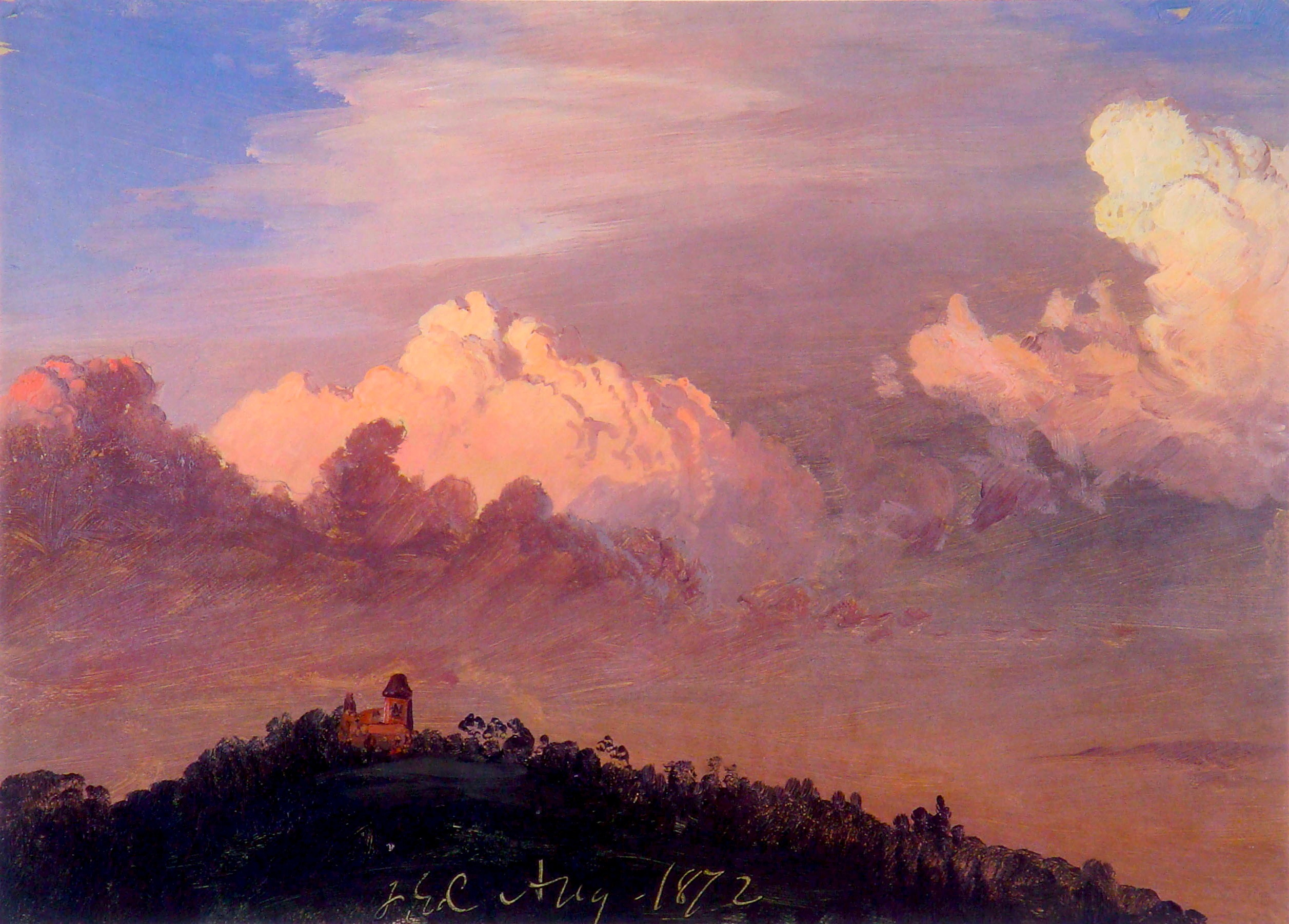 Oil on paper 8 5/8 x 12 1/8 in. Olana State Historic Site, Hudson, New York